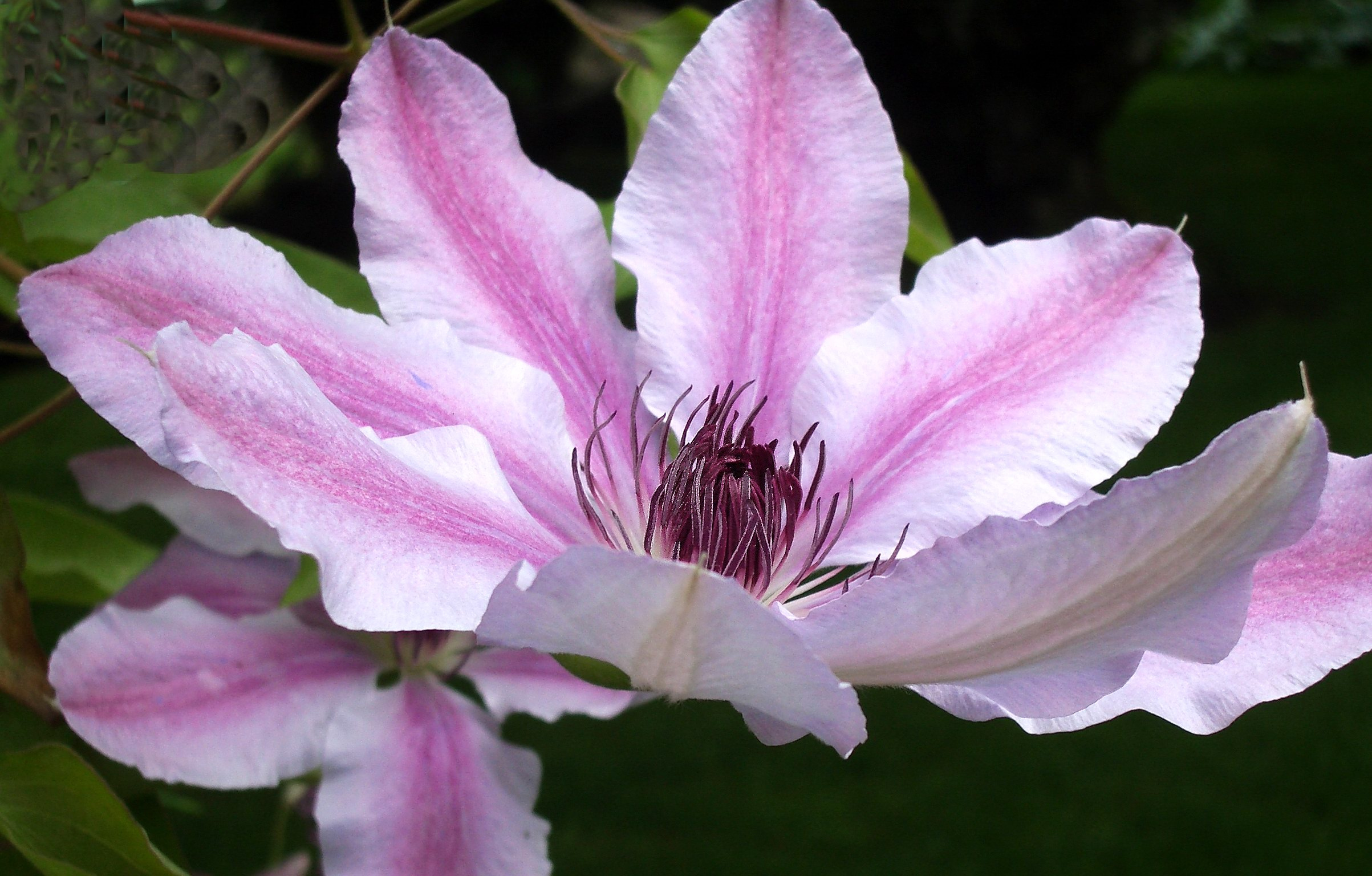 Clematis 'Nelly Moser'